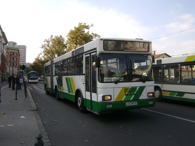 MAN SG240 Avtomontaža city bus in Ljubljana, Slovenia.